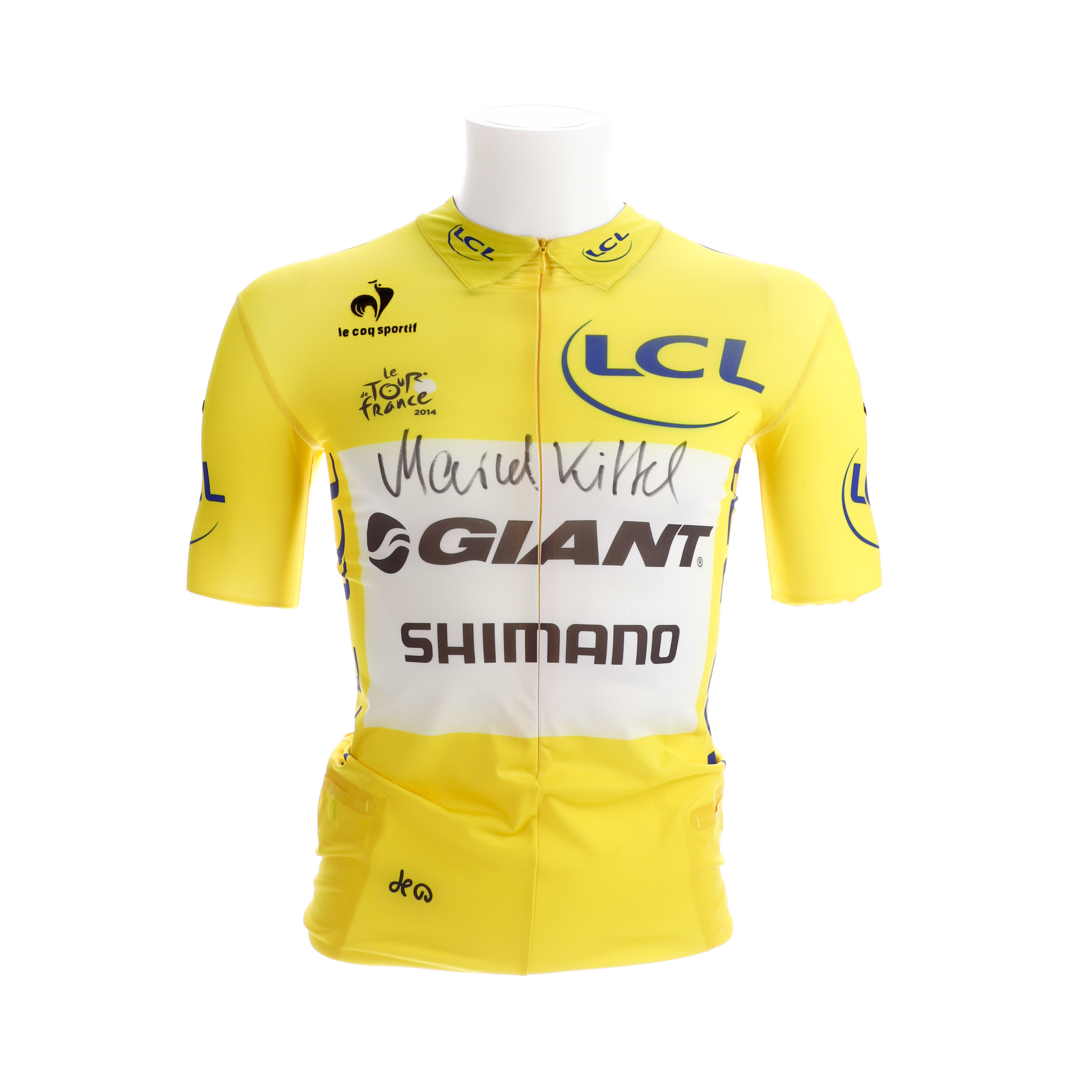 The Tour de France got underway in 2014 with a three-day race on English soil. This was the signal for Mark Cavendish to surge ahead, but the British rider took too many risks, falls and had to bow out, unintentionally paving the way for Marcel Kittel, who kicked off his Tour de France with a sprint victory and the yellow jersey in a repeat of his performance the previous year. None other than Britain's Princess Kate presented Kittel with the yellow jersey. The German sprint bomb not only started like the year before, he also ended with the same result: four wins to his credit.